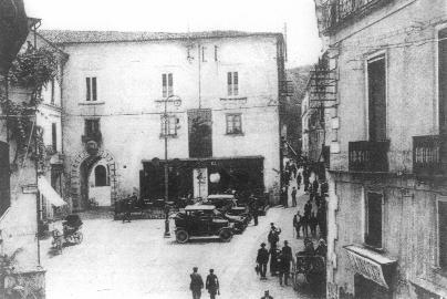 Piazza Parrasio in the old town of Cosenza